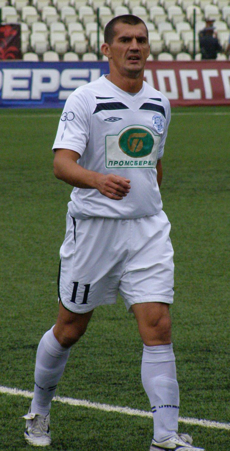 Dmitry Chesnokov as a player of FC Avangard Podolsk